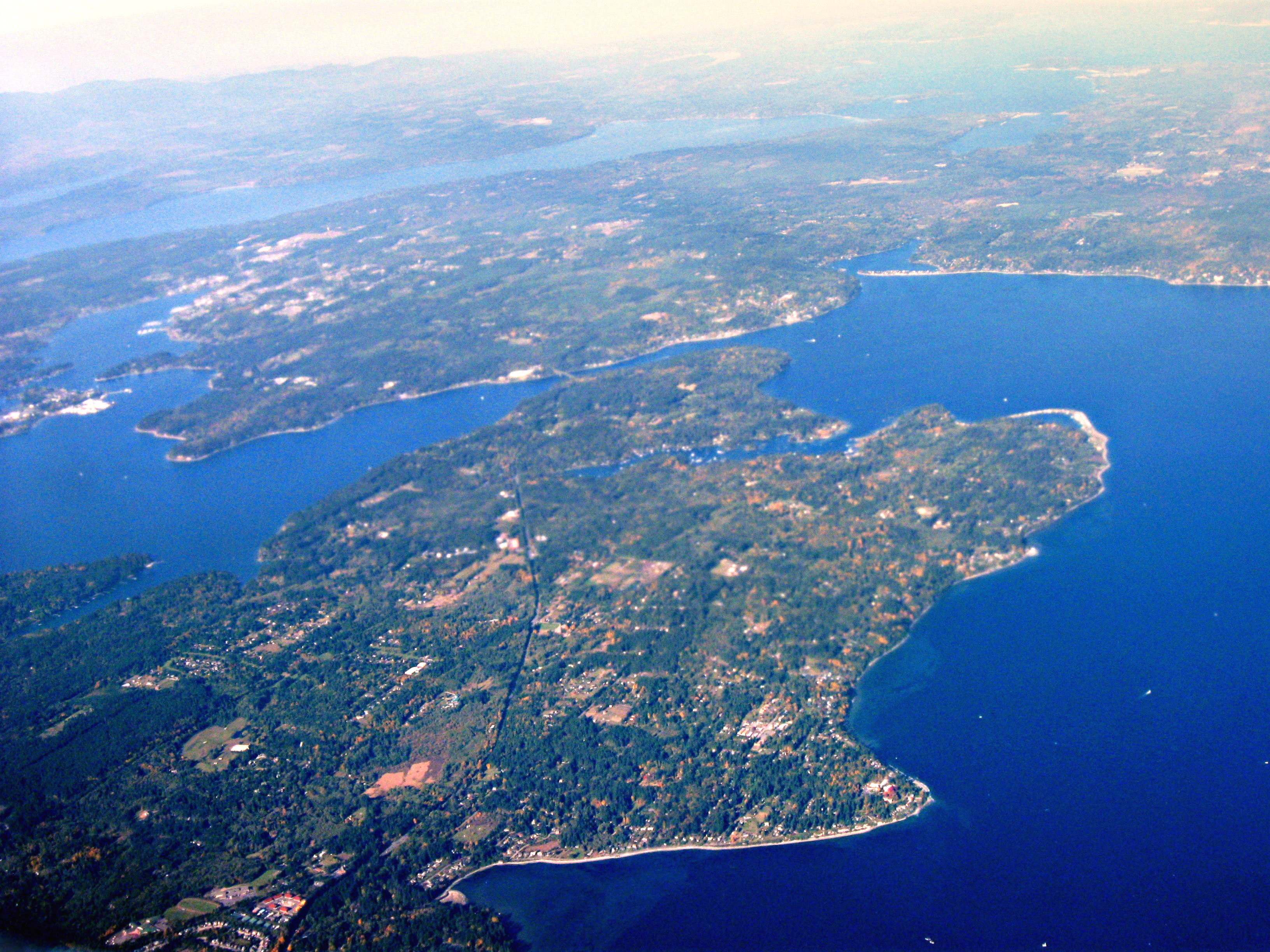 Aerial view of Bainbridge Island (bottom center/left) and Agate Passage (center), facing north north west. Beyond Bainbridge Island is Port Orchard Bay (left center) and the Olympic Peninsula (top). Taken by myself from a commercial airliner window.